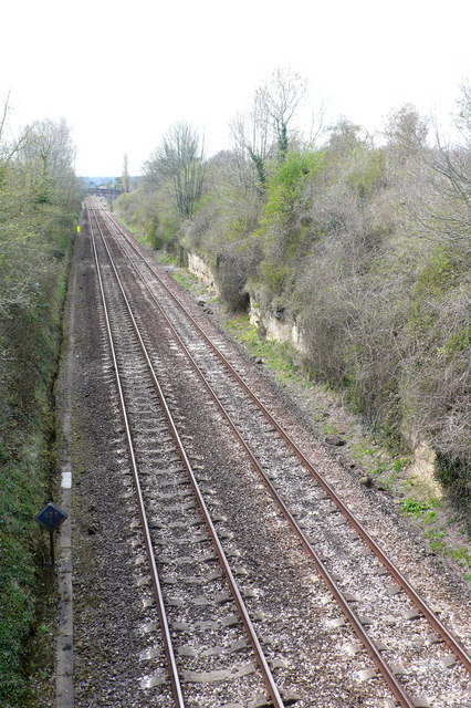 Railway Cutting Bradford Abbas Looking west towards the village on the Yeovil to Sherborne line